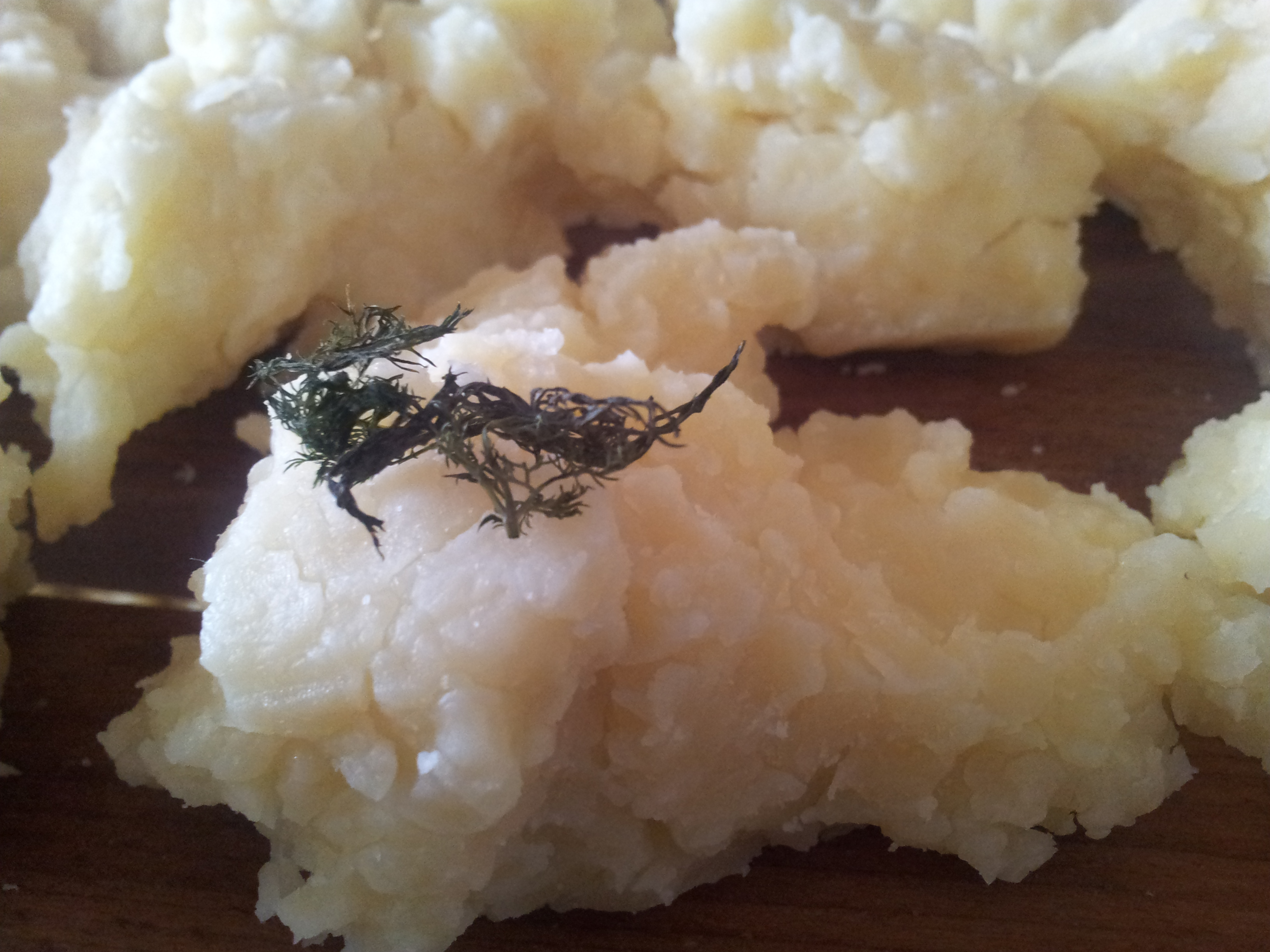 A piece of Sharri Cheese produced in the Sharri Region of Kosovo